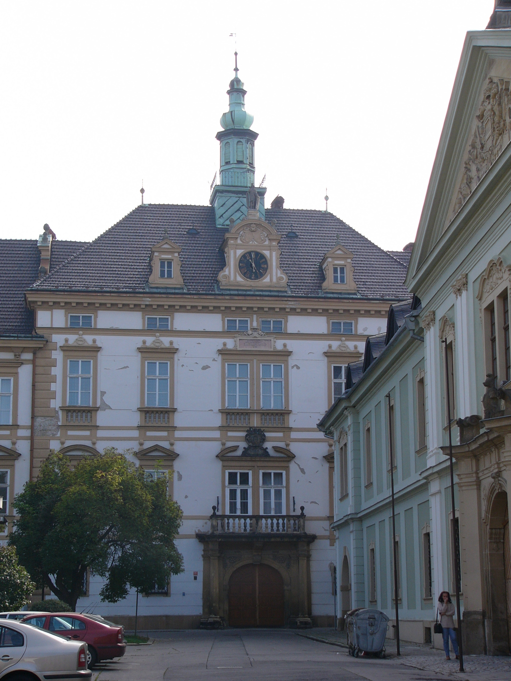 Building of diocese (archdiocese) in Olomouc (Czech Republic).